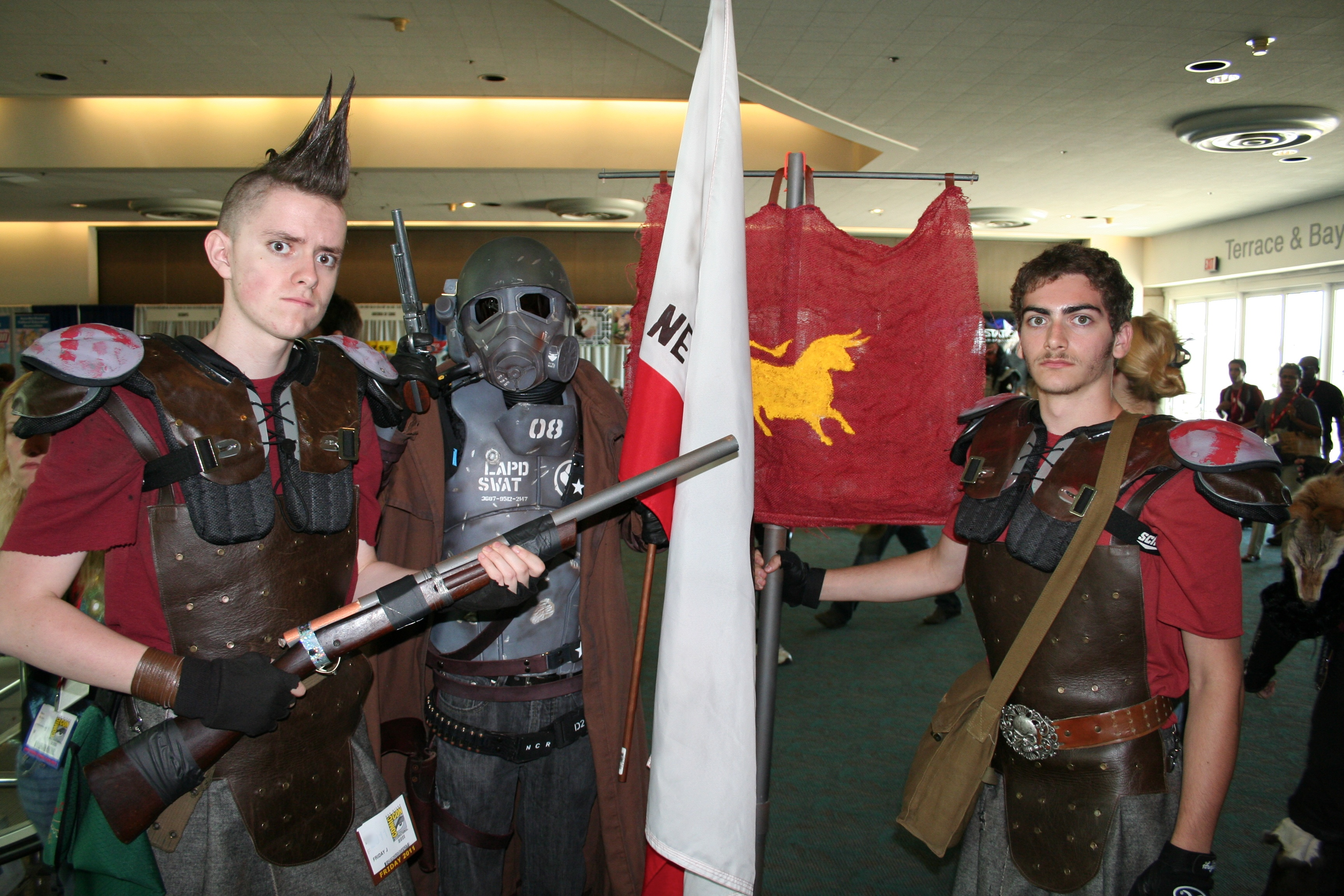 In Fallout: New Vegas this meet up would have resulted in a bloody battle.